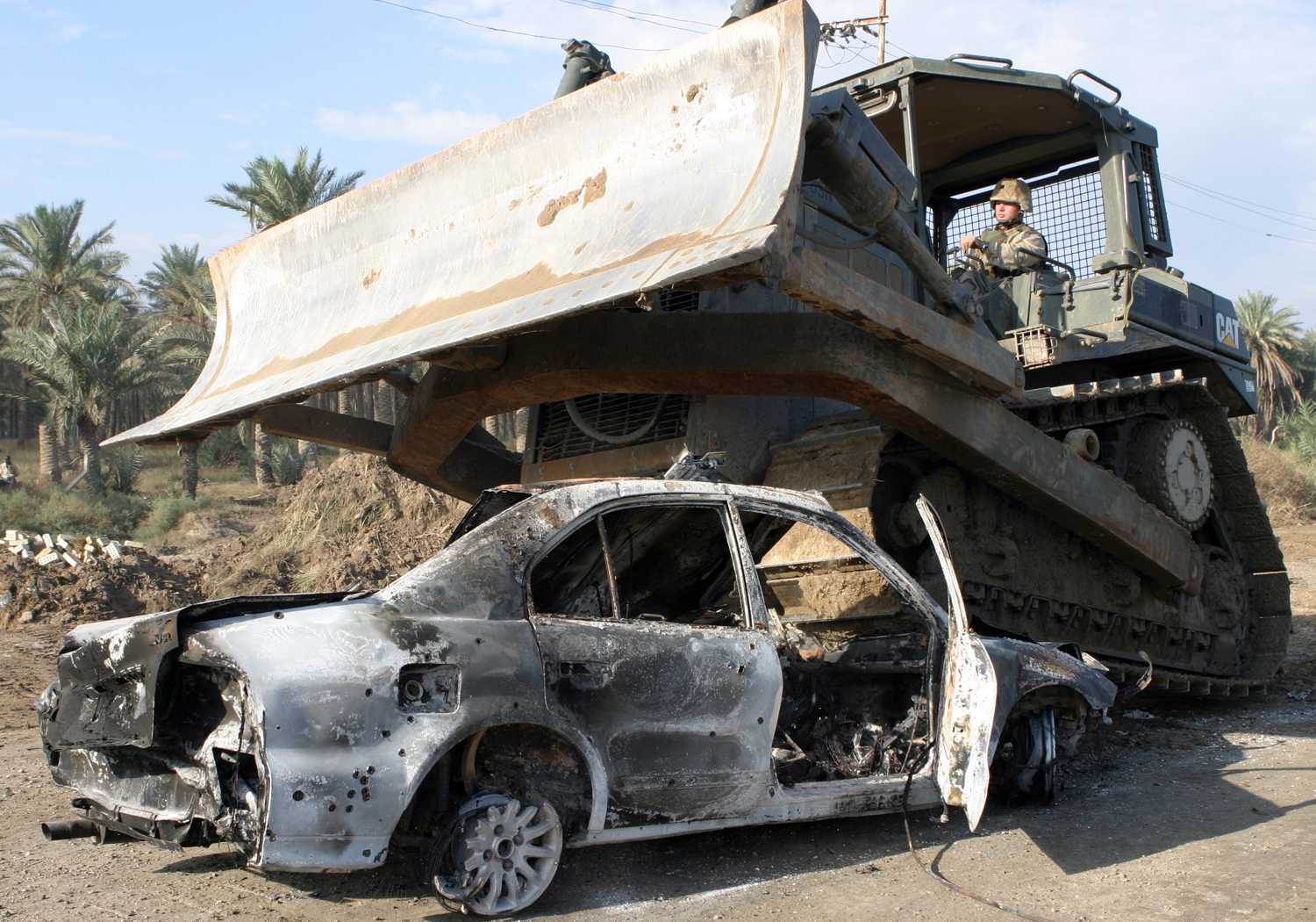 Lutafiyah, Iraq (Nov. 13, 2004) - A U.S. Navy Seabee assigned to the 24th Marine Expeditionary Unit (MEU), compresses a car which will be placed inside a hole on a bridge in Lutafiyah, Iraq, added to bricks and gravel poured into the hole to provide stability as part of the bridge’s reconstruction effort. The bridge was severely damaged in repeated attacks by anti-Iraqi militants. The 24th MEU is currently conducting security and stability operations in the northern Babil province or Iraq. U.S. Marine Corps photo by Lance Cpl. Sarah A. Beavers (RELEASED)